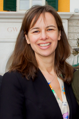 Sophie Karmasin at the Via Culinaria Wissensküche